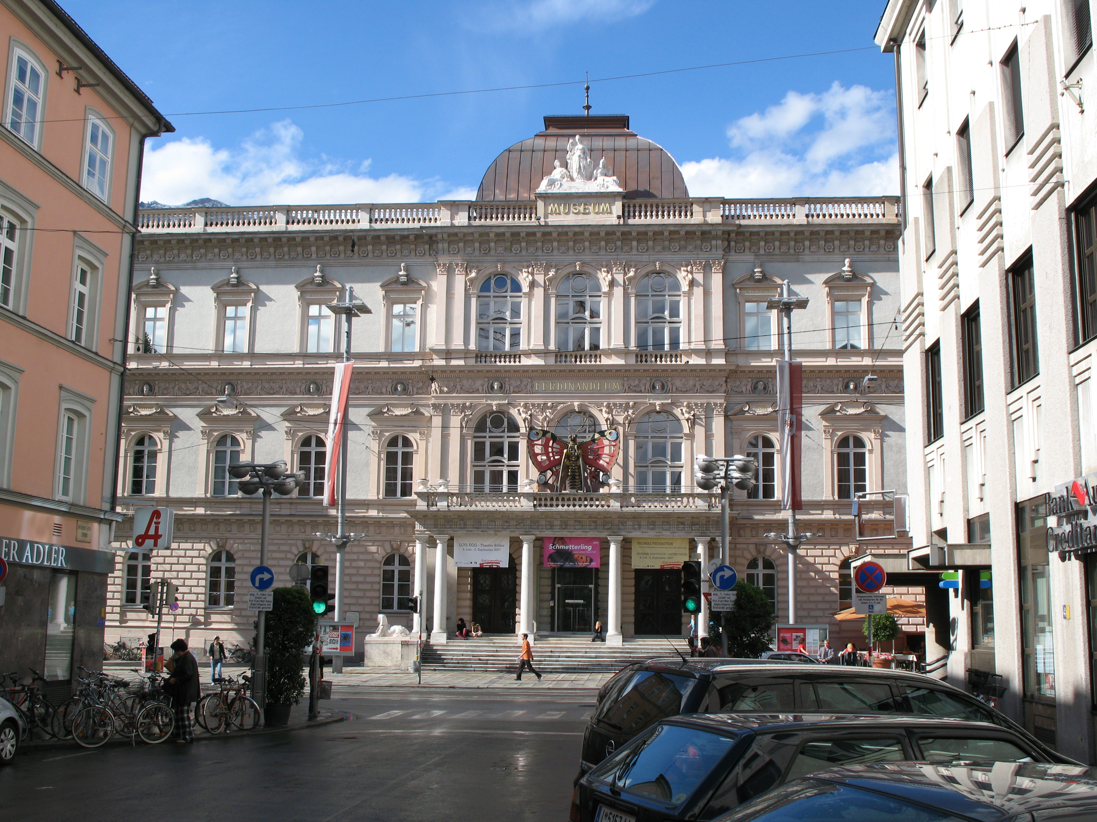 Tyrol Museum, Innsbruck, Austria